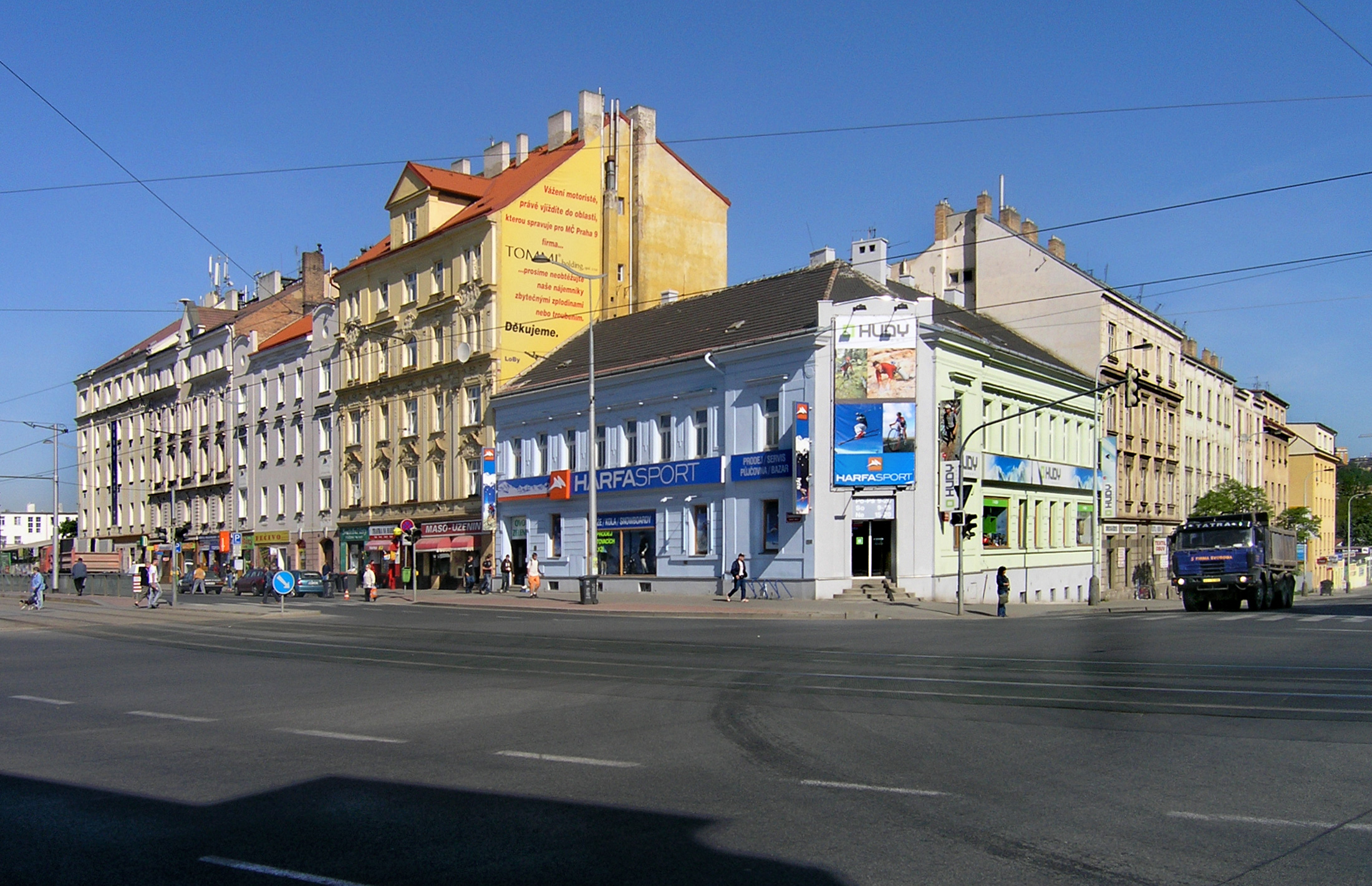 Harfa intersection at Vysočany, Prague